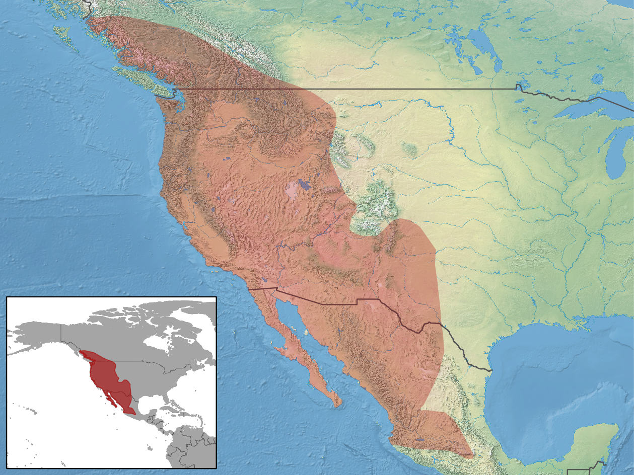 geographic distribution of Myotis yumanensis